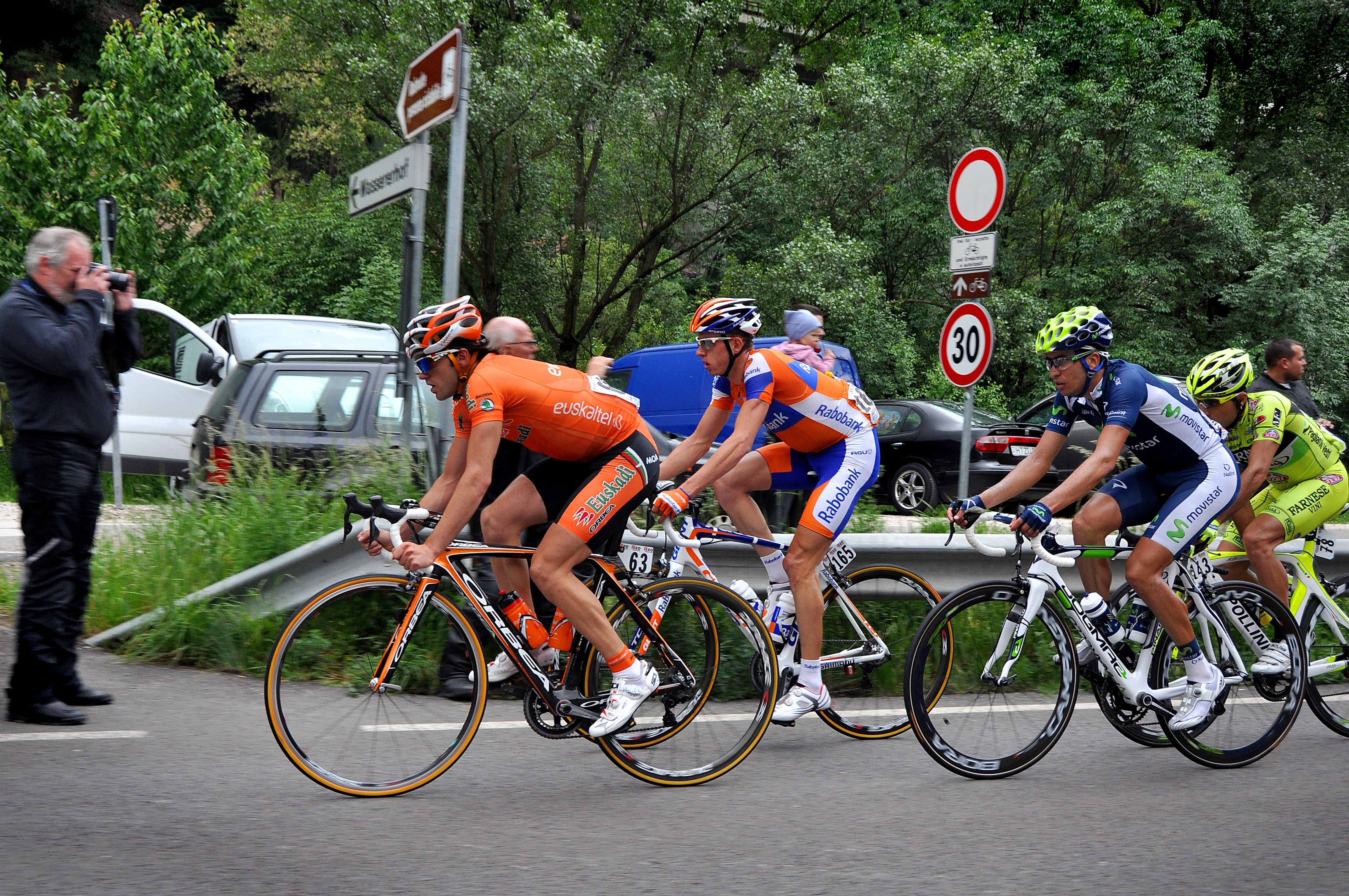 Jon Izagirre (Euskaltel-Euskadi) leads the ten man breakaway on stage 16, Limone sul Garda - Falzes, of the 2012 Giro d'Italia. The 23 year old Basque rider went on to win the stage breaking away on the final climb and finishing 16 seconds ahead of his closest rival.